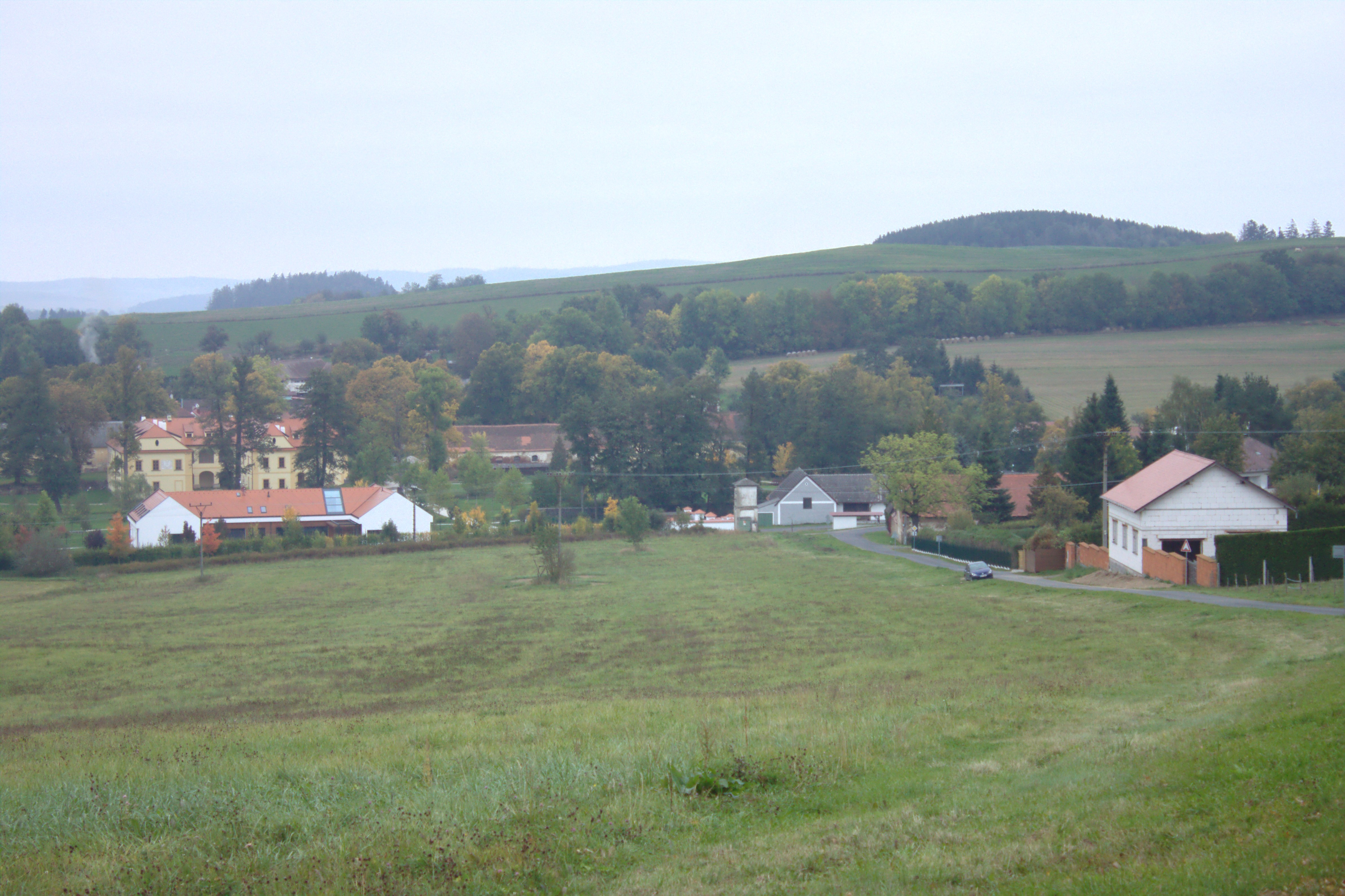 Buildings in the village of Obytce, Plzeň Region, CZ